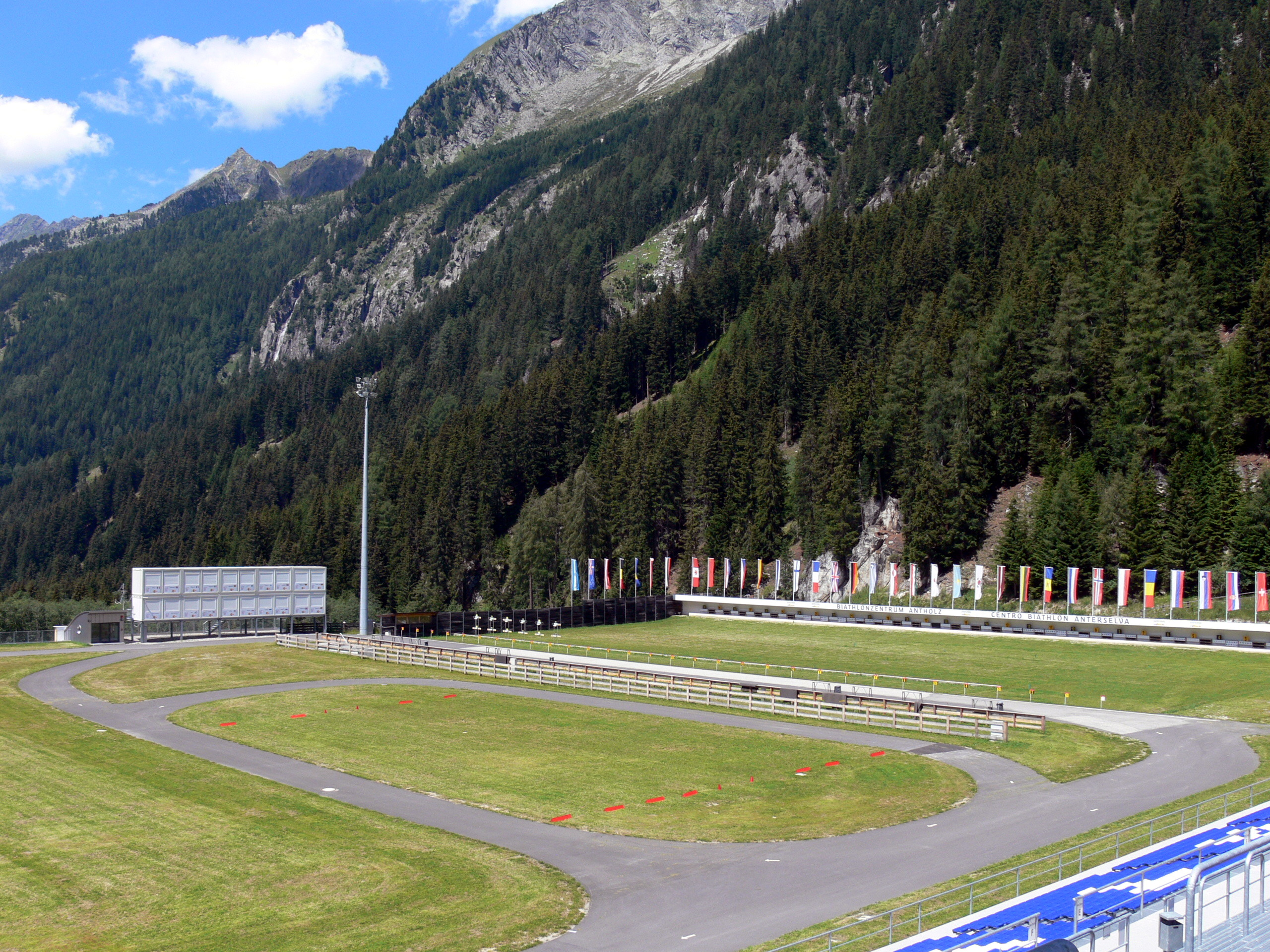 Antholz. Biathlon area